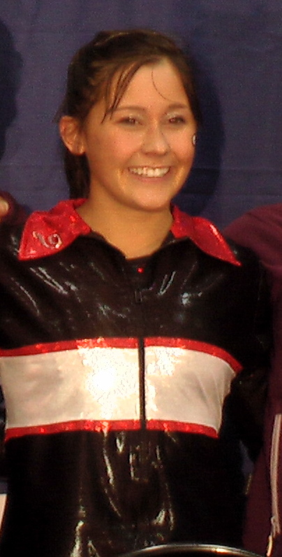 Courtney McCool FX (Georgia), Grace Taylor Beam (Georgia(, Susan Jackson Vault (LSU), Tasha Schwikert Bars (UCLA)